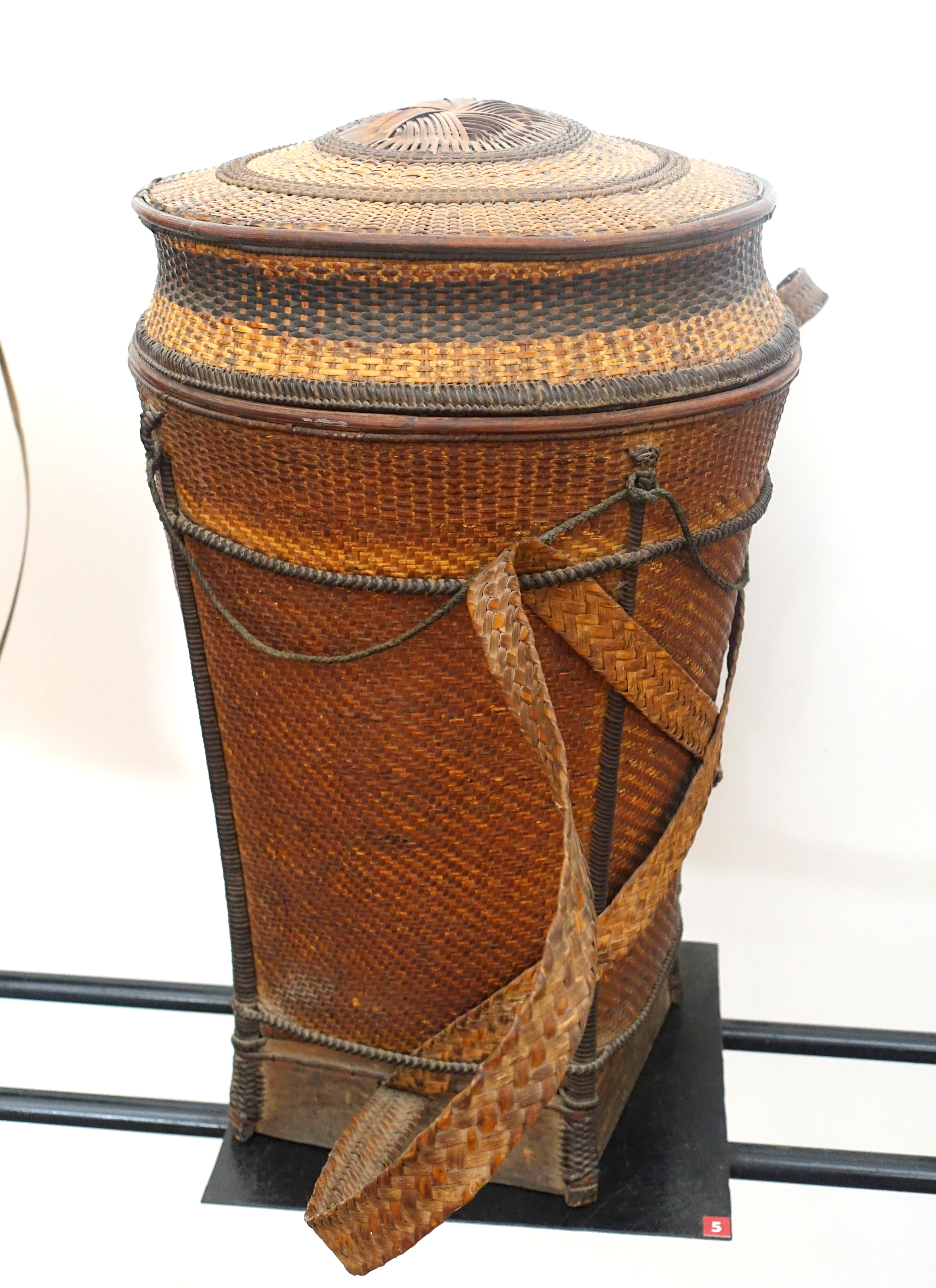 Exhibit in the Vietnam Museum of Ethnology - Hanoi, Vietnam.